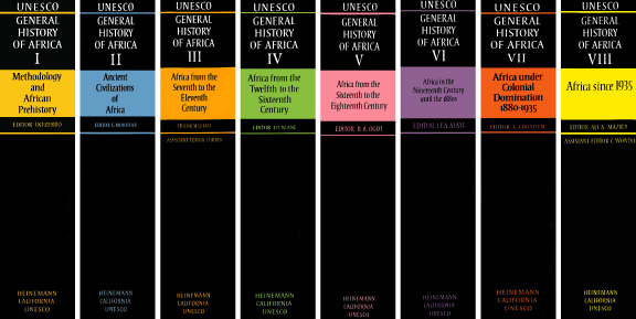 Image of the entire 8 volumes of the GHA